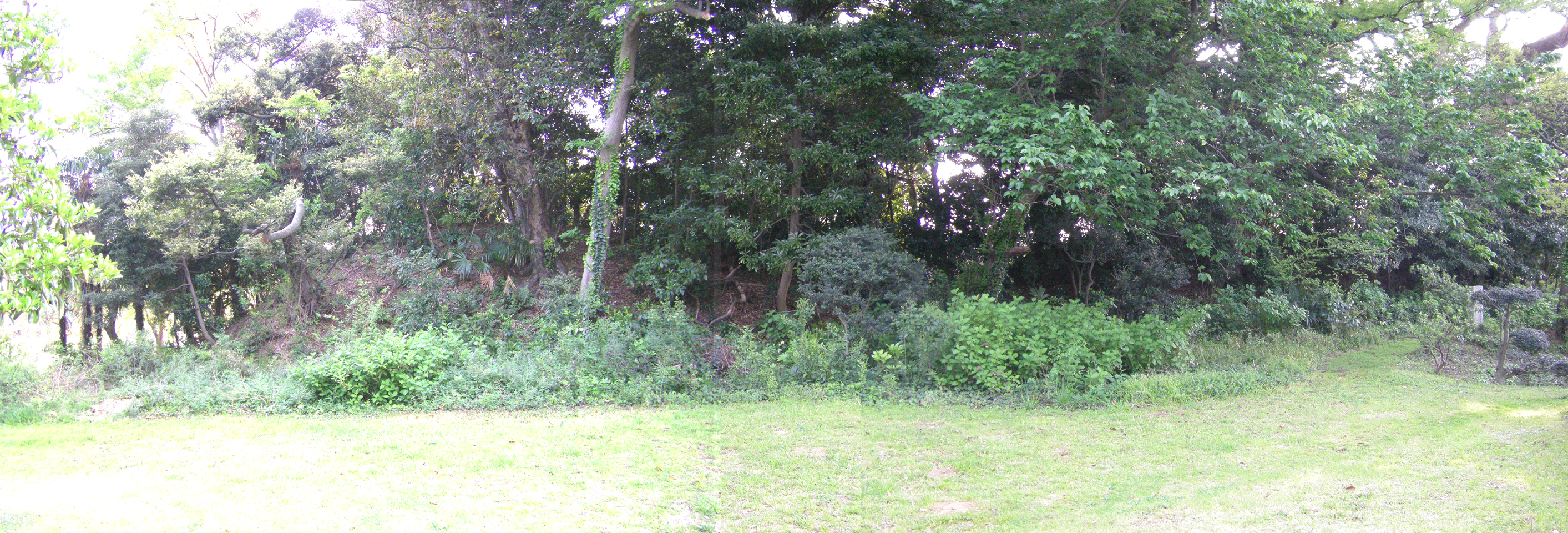 Hououduka Tomb